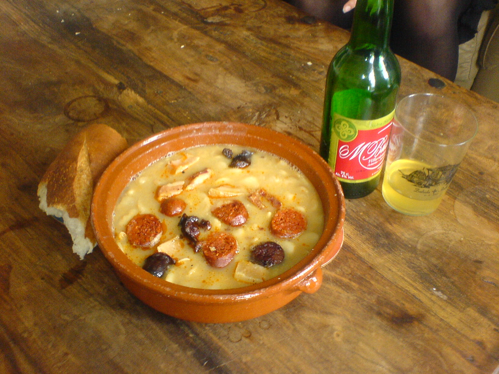 Picture of Fabada.